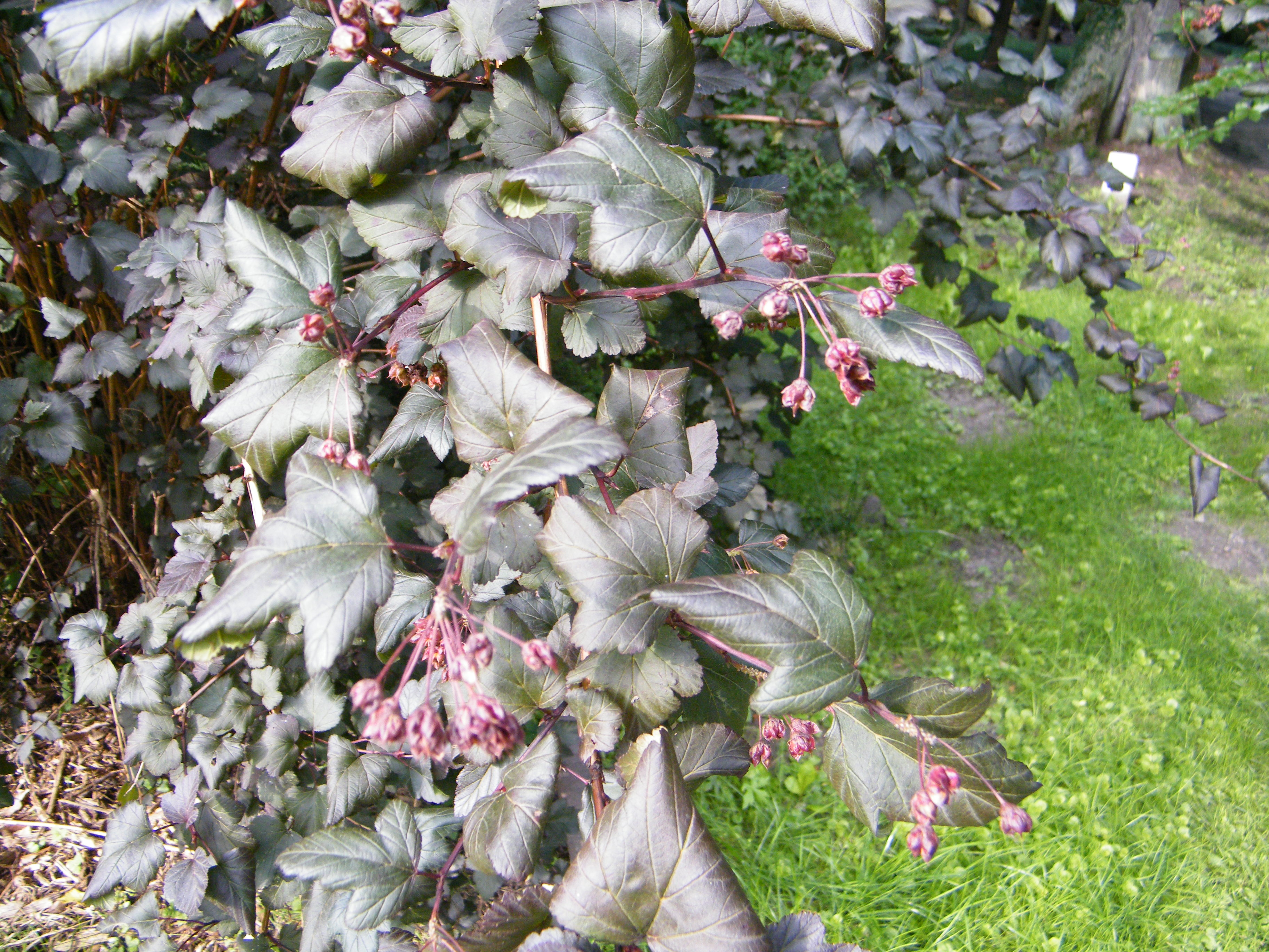 Physocarpus opulifolius in the Kórnik Arboretum